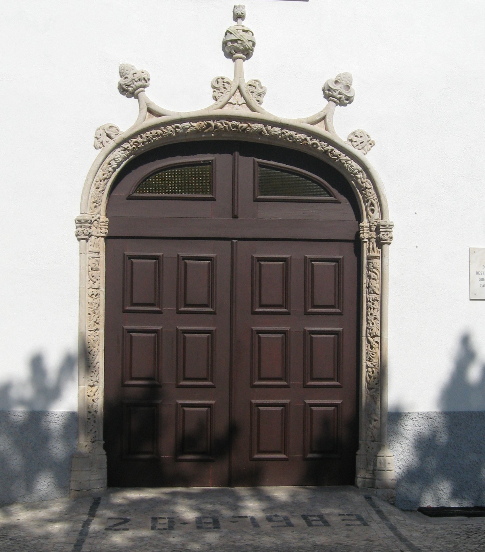 Alcobaça, Portugal, Mosteiro, Coutos de Alcobaça, former county of the Abbey, one the 13 cities: Alvorninha, Igreja (church) de Nossa Senhora da Visitacao, Manueline door, 16th century